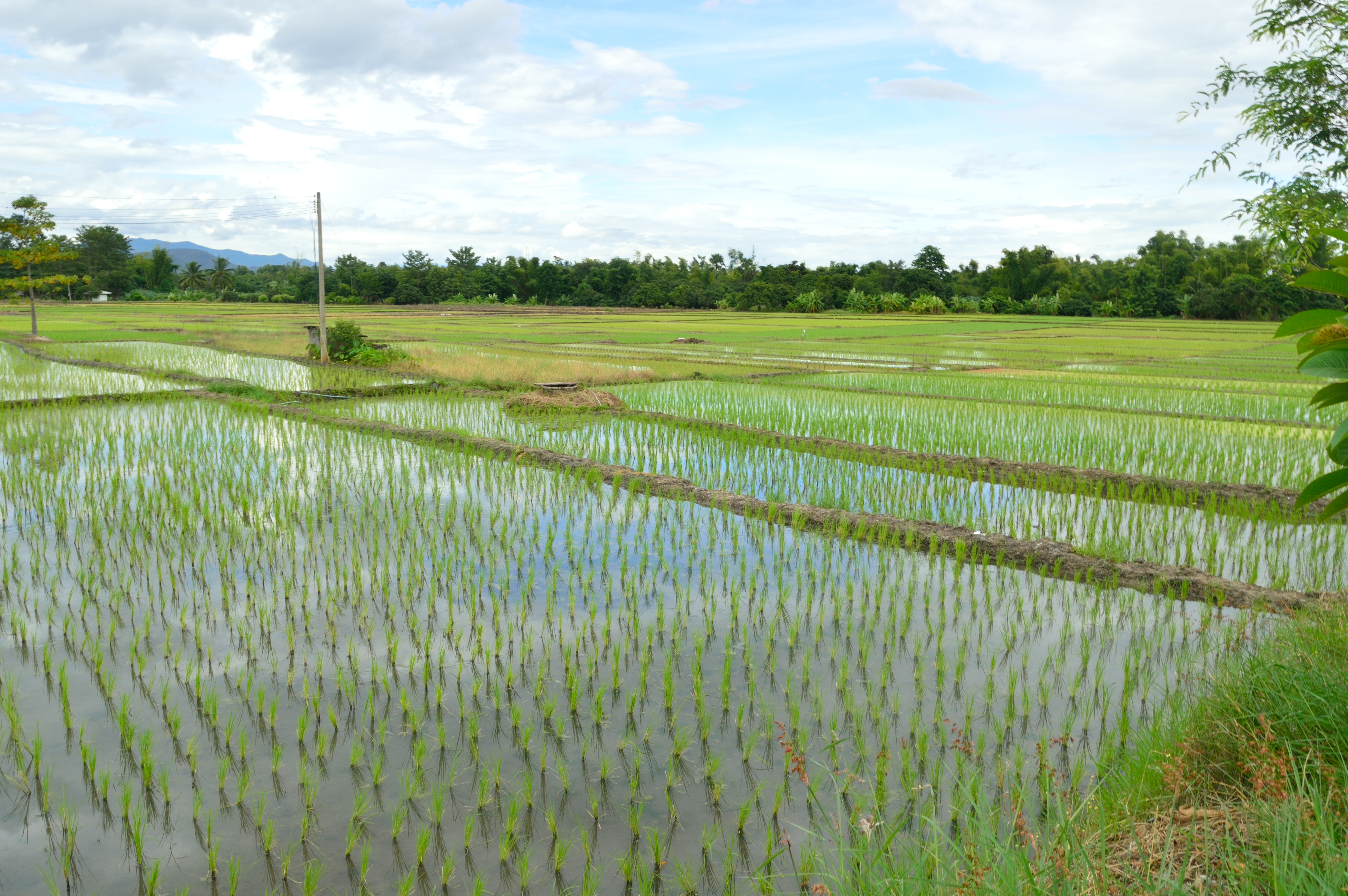 Rice Fields near Doi Inthanon National Park. I'm not really sure about the coordinates but they're at least near the real location.